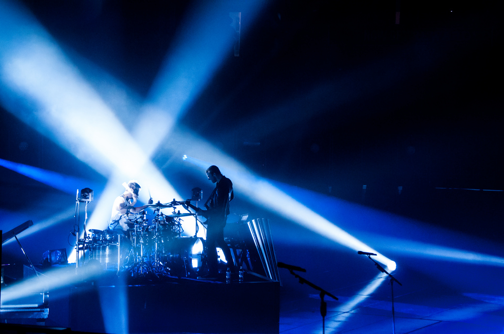 Toronto, Ontario. April 10, 2013. Part of 2nd Law tour.